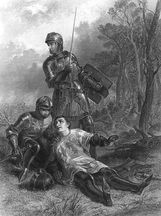 Portrayal of Shakespeare's version (Act V, Scene ii, of Henry VI, Part 3) of the Earl of Warwick's death at the Battle of Barnet in 1471